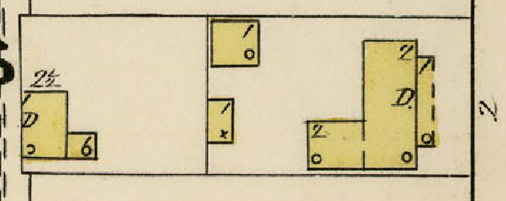 Sanborn Fire Insurance Map. 1889. Dolph Briscoe Center. University of Texas, Austin, Texas.